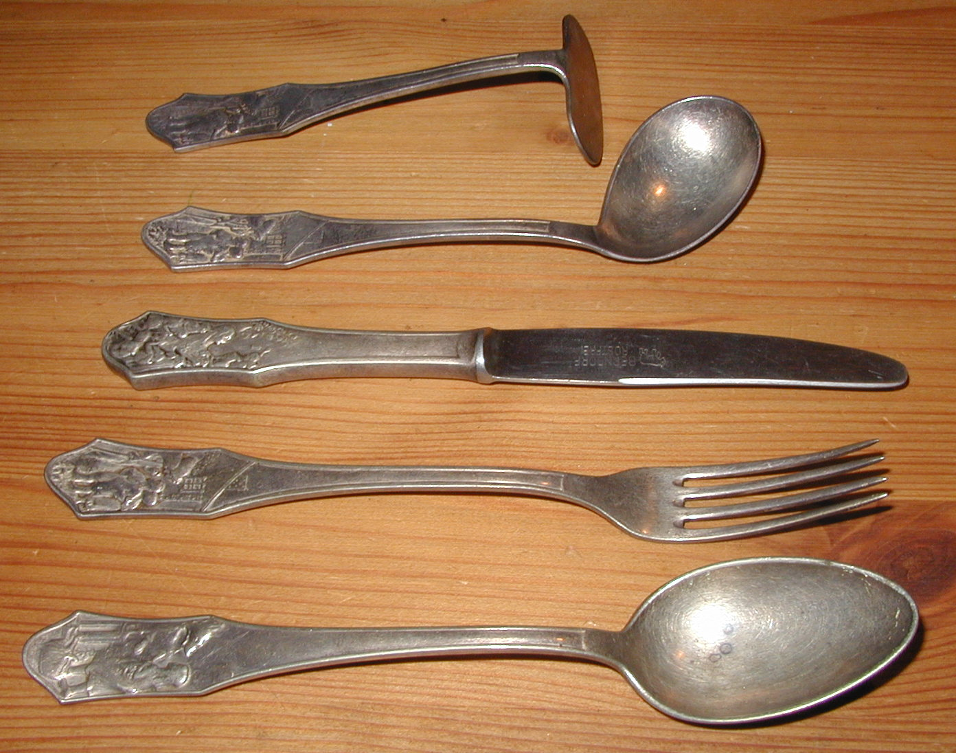 Cutlery for children. Picture taken and uploaded by Roger McLassus (owner).